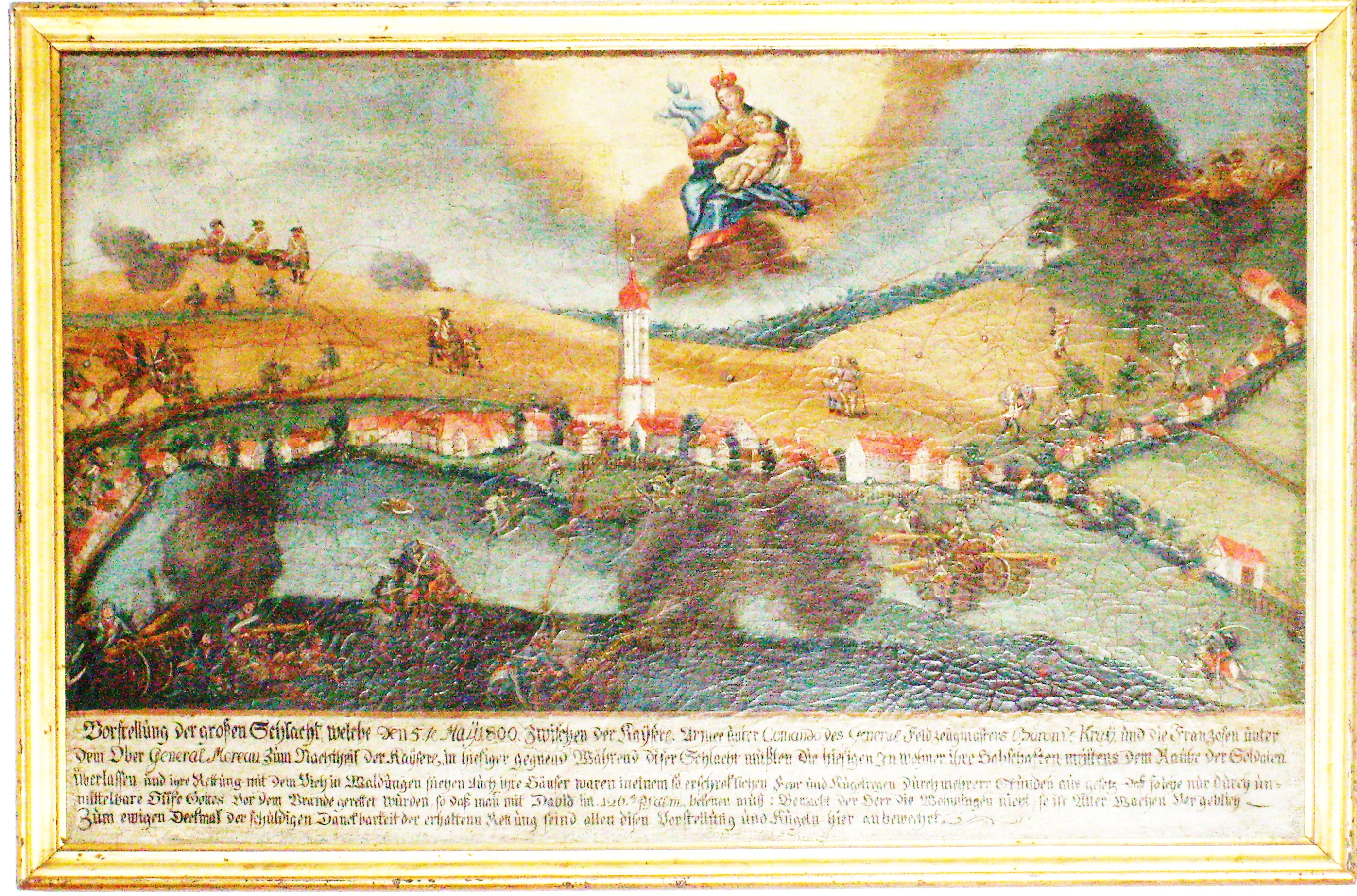 Church of St. Peter- und Paul in Meßkirch-Rohrdorf Votivimage about the Battle of Messkirch